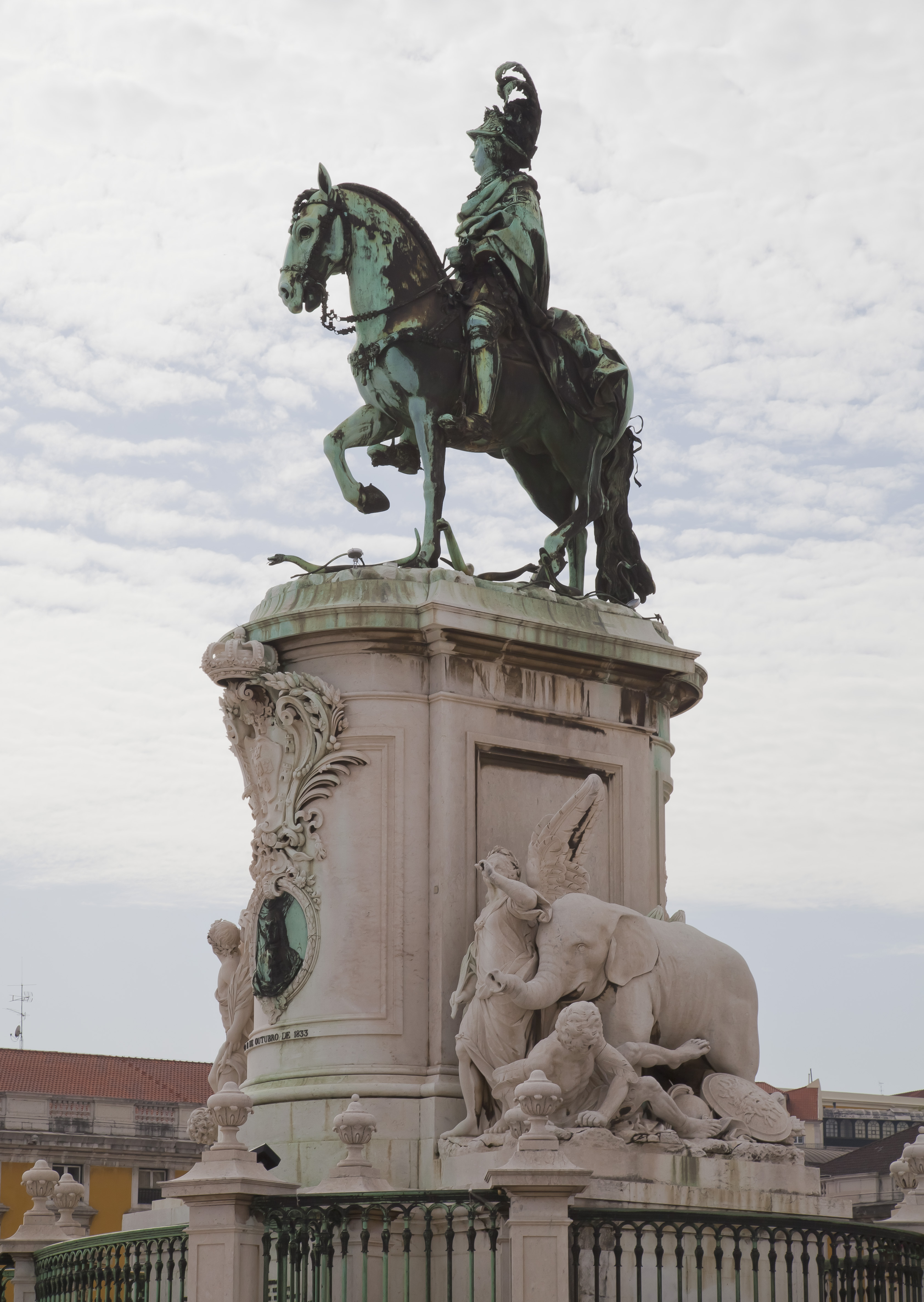 Statue of D. Joseph, Commerce Square, Lisbon, Portugal